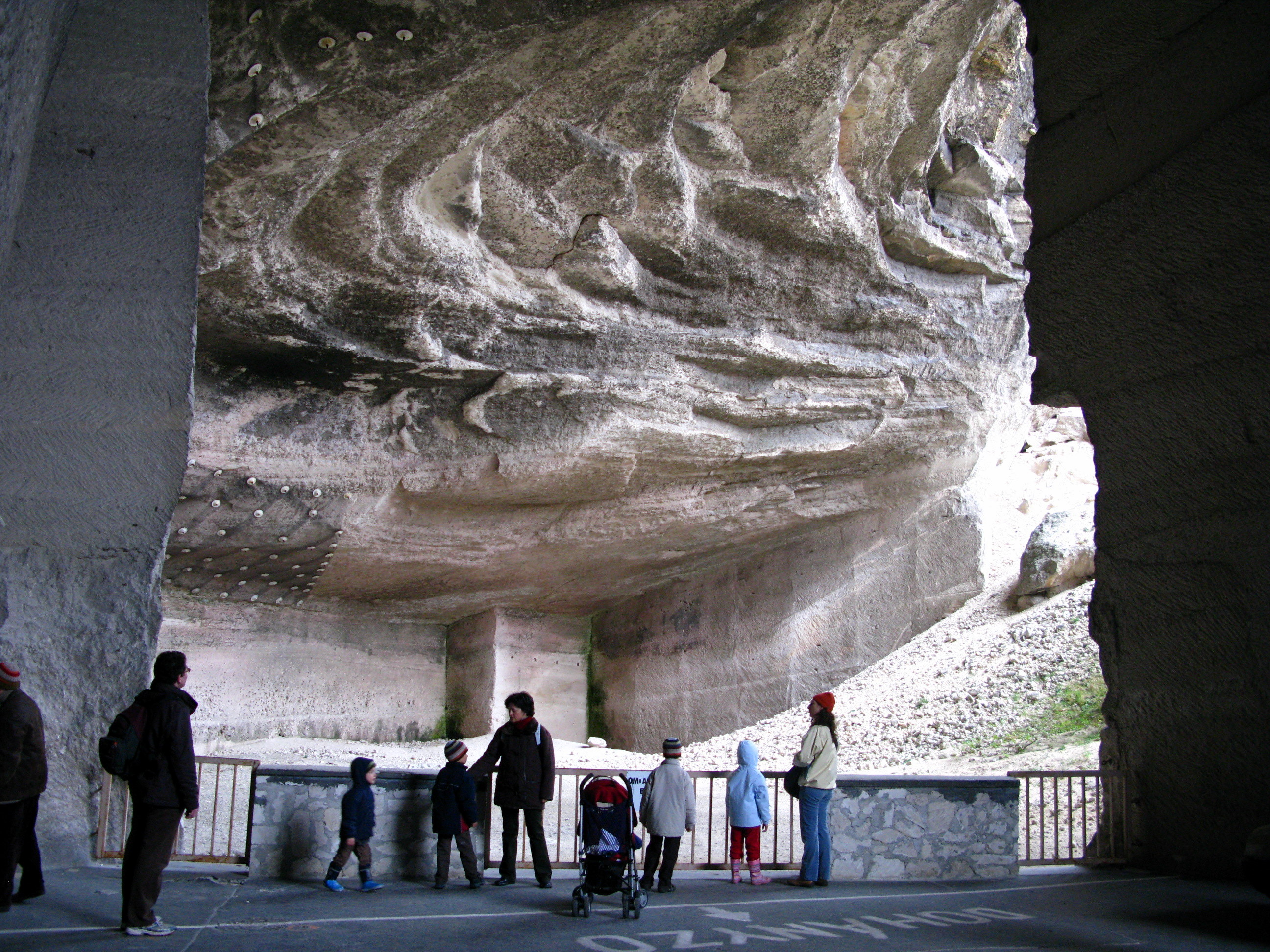 Previous Episcopal quarry of Fertőrákos near Lake Neusiedl, County Győr-Moson-Sopron / Hungary / EU.